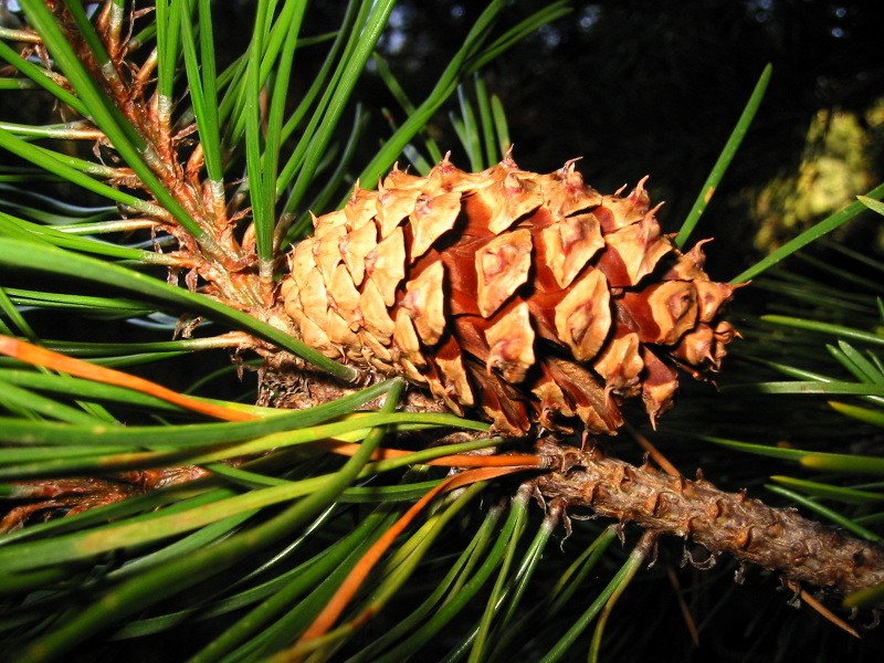 Pinus contorta Description: Tamarack Pine, Pinus contorta subsp. murrayana, foliage and female cone Viewpoint location: Soda Mountain Road about 1.0 km east of Soda Mountain, Cascade-Siskiyou National Monument. Estimated location error along road ~200 m. Lat/Long: 42.0624°N, 122.4674°W (WGS84/NAD83) USGS Soda Mountain Quad [1] Viewpoint elevation: 5240' View direction: n/a Date and time: 2005.10.22 15:05:37 PDT Camera: Canon PowerShot S110 Photographer: Walter Siegmund ©2005 Walter Siegmund